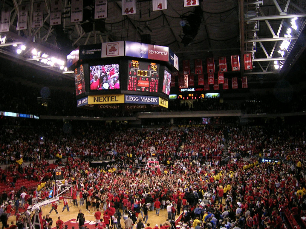 Fans rush the court at Comcast Center in College Park, Maryland after the Maryland men's basketball team defeated Duke, 99–92 in overtime on February 12, 2005.